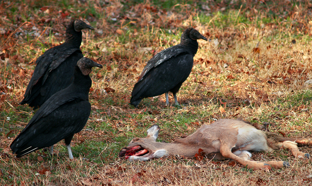 Black Vultures feeding on a dead deer